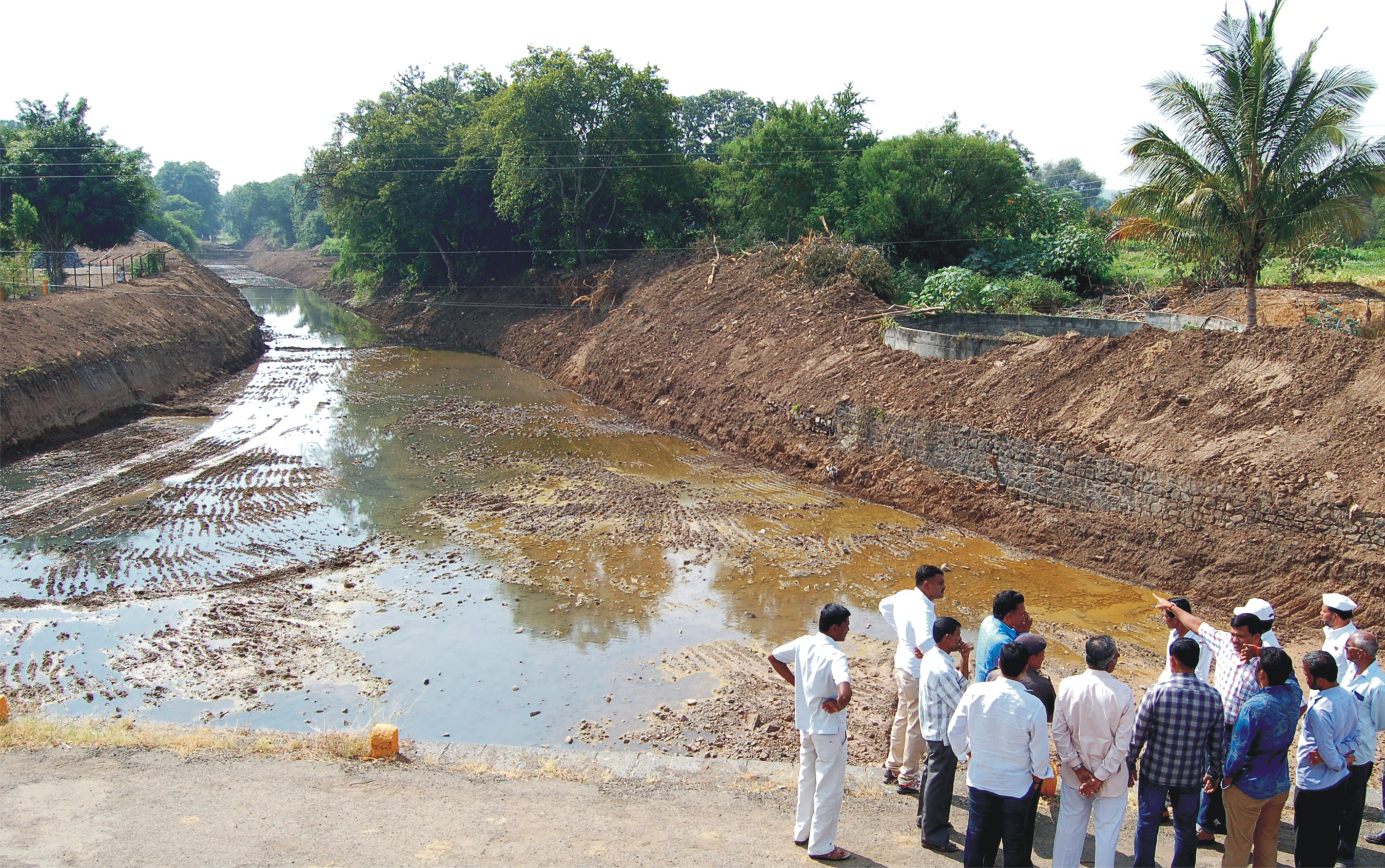 Development works of the Yerala river at Pusegaon in Satara district of Maharashtra.